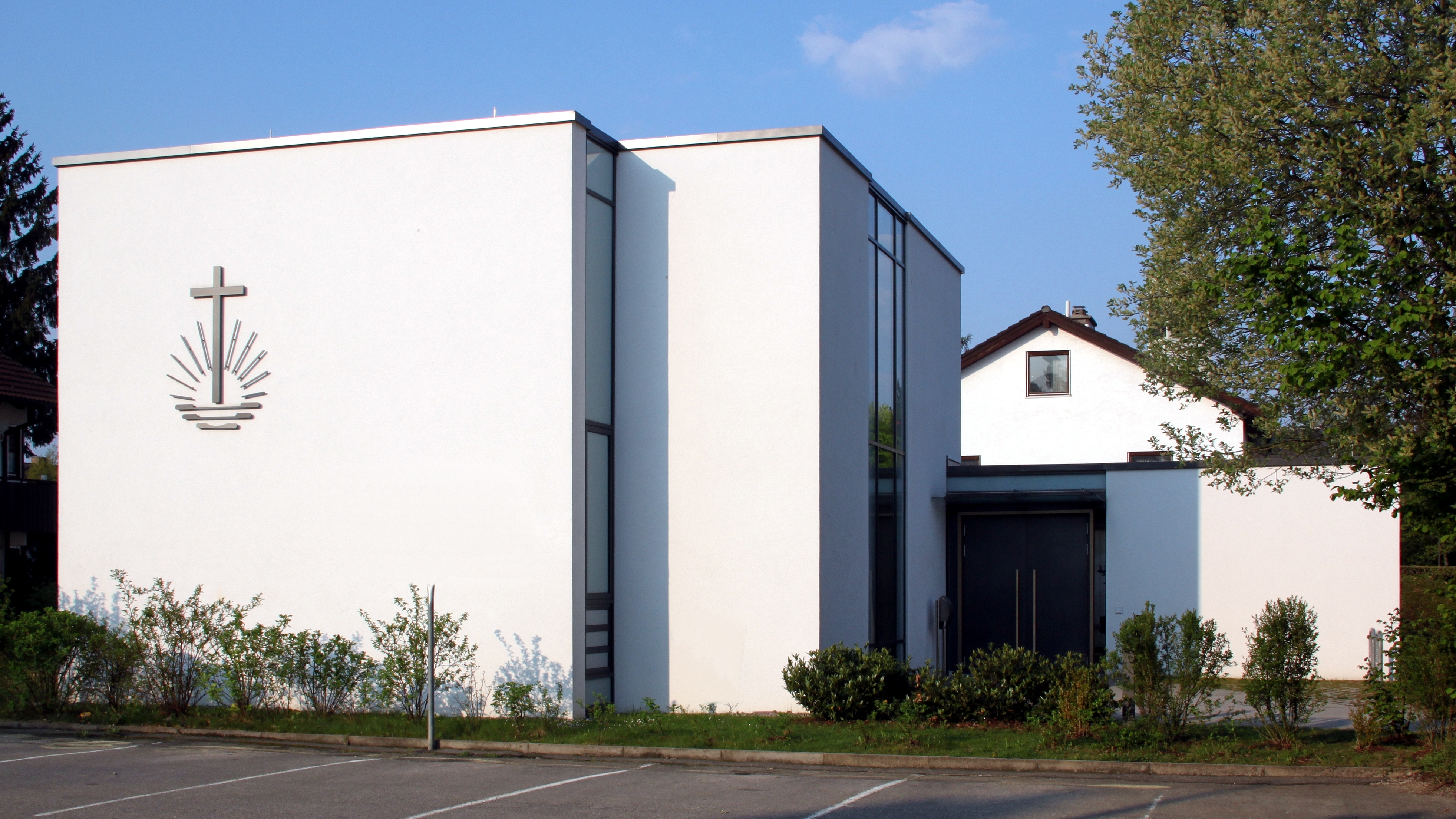 Ottobrunn: New Apostolic church (Eichendorffstr. 54), as seen from Mozartstraße